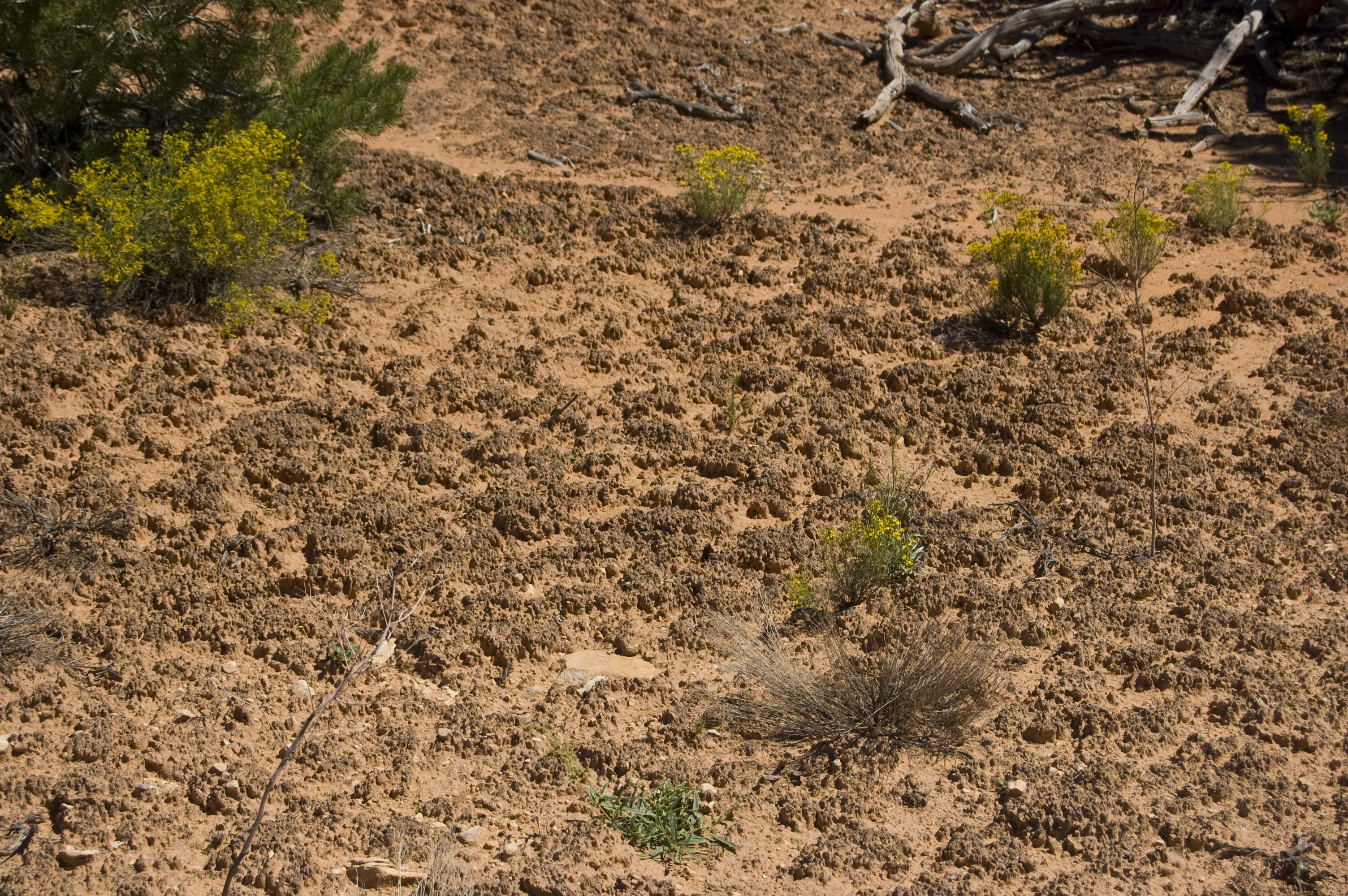 Cryptobiotic soil crust found in Natural Bridges National Monument, Utah.